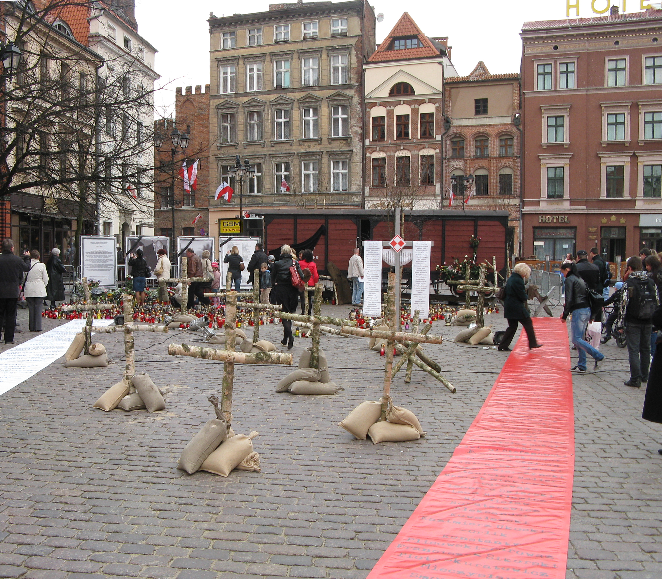 Exhibition on Old Town Square Market in Toruń after president's plane crash 2010